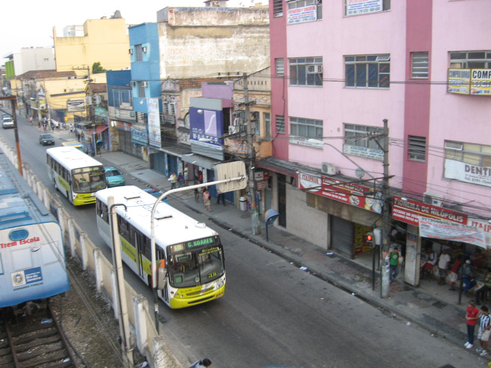 Two buses in Nilópolis, Rio de Janeiro, Brazil.